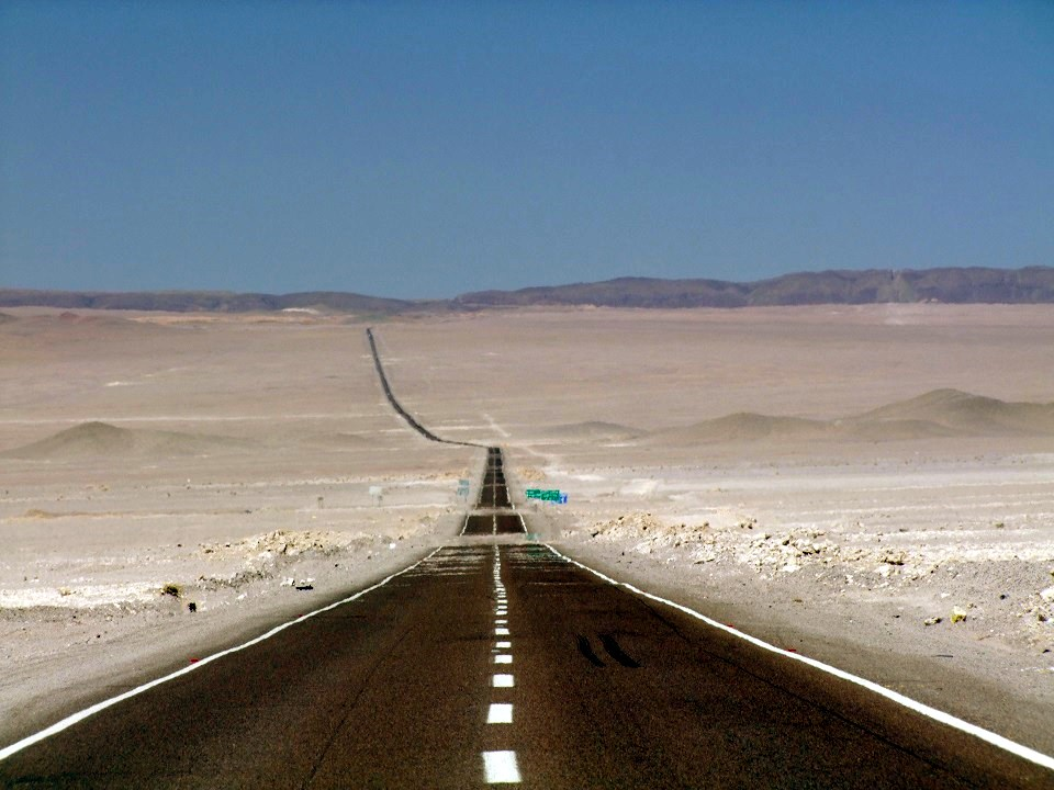 Km 25 Ruta 23-CH, 2615 m a.s.l.: Route 23 crosses the Atacama desert between Calama and San Pedro de Atacama.